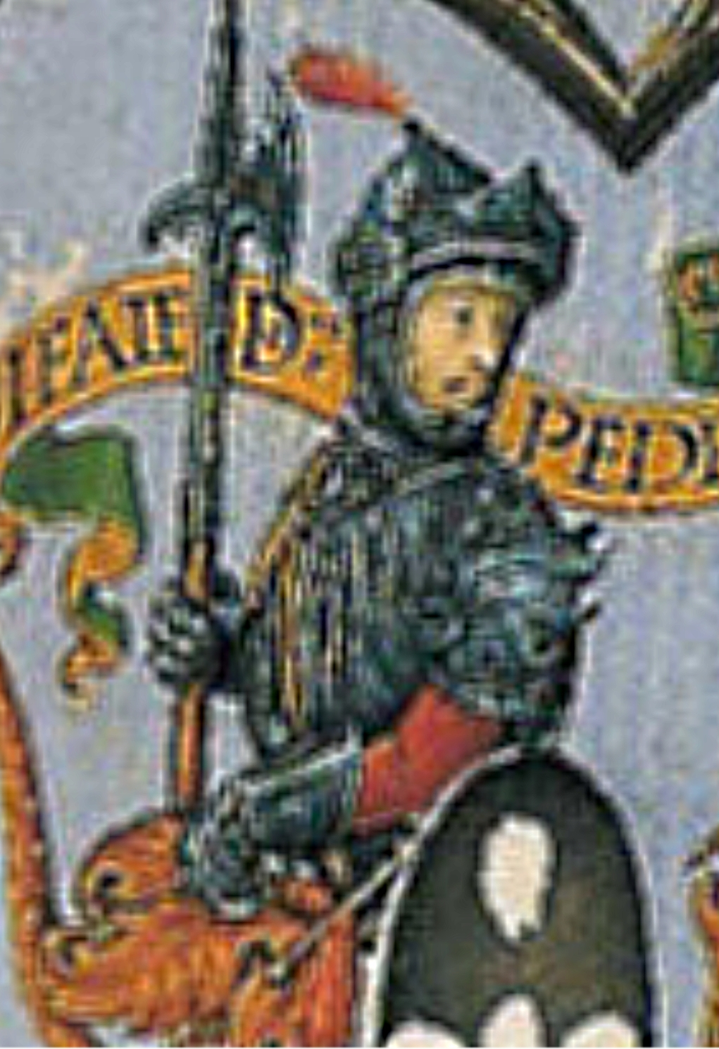 Peter of Portugal, son of Sancho I and count of Urgel